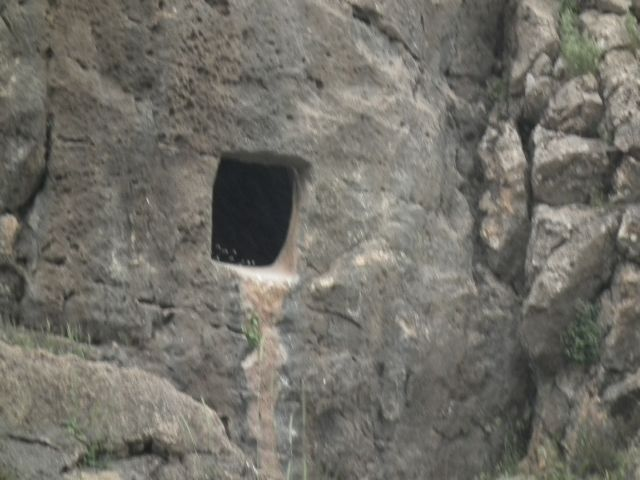 Sarpir